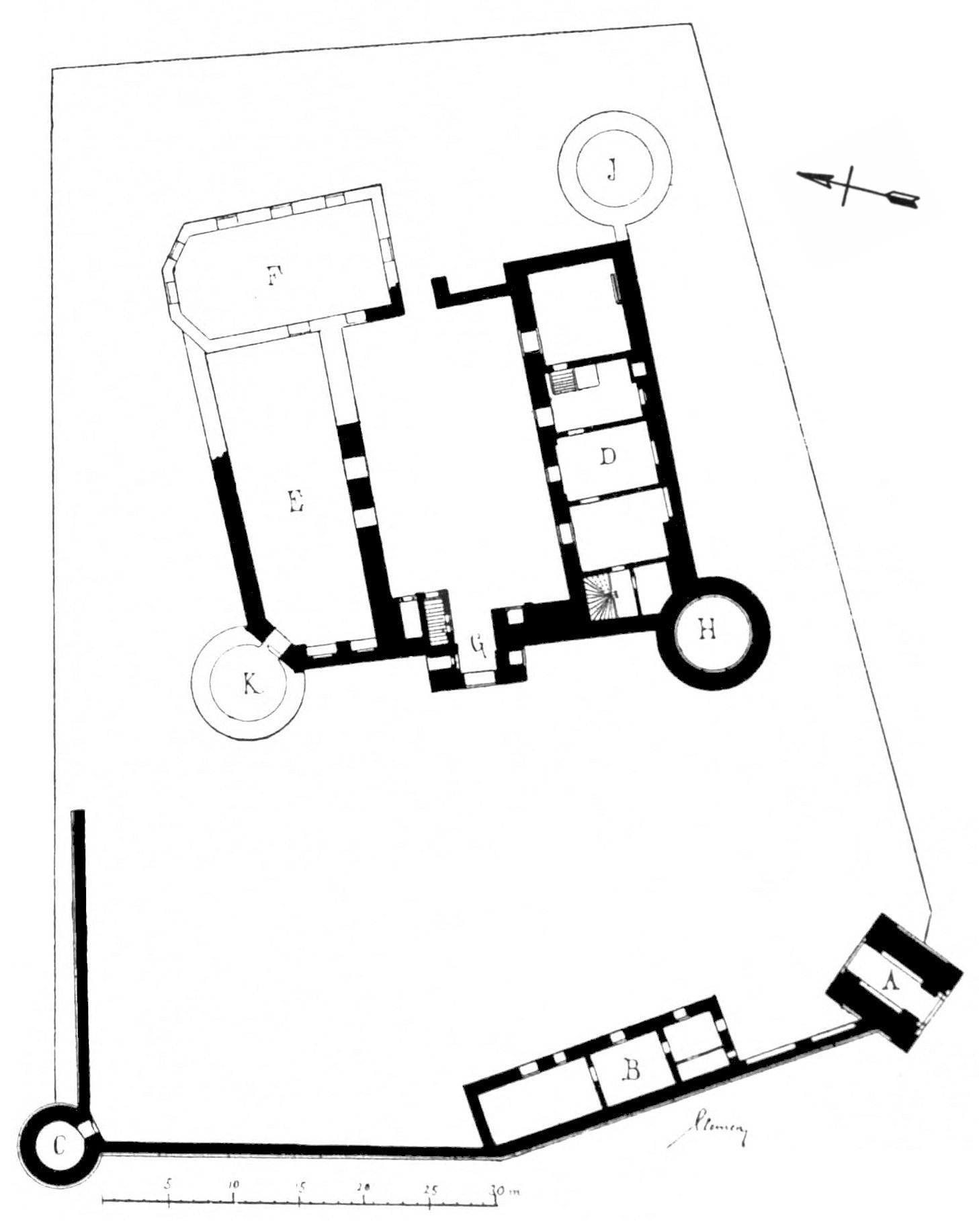 Floorplan of Brüggen Castle